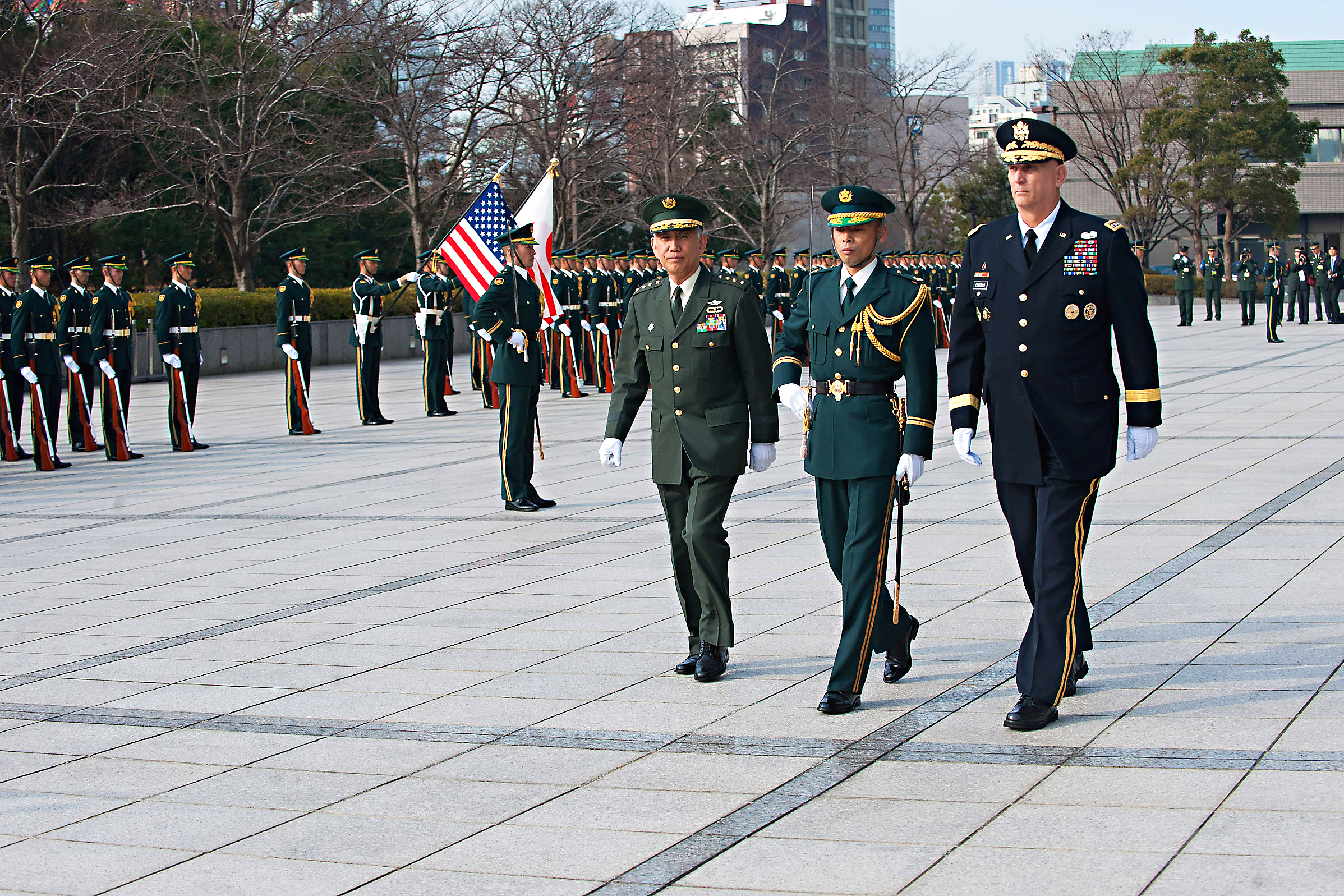 U.S. Army Chief of Staff Gen. Raymond T. Odierno participates in a full honors ceremony hosted by Japan Ground Self Defense Force Chief of Staff Gen. Eiji Kimizuka in Tokyo, Jan. 19, 2012.